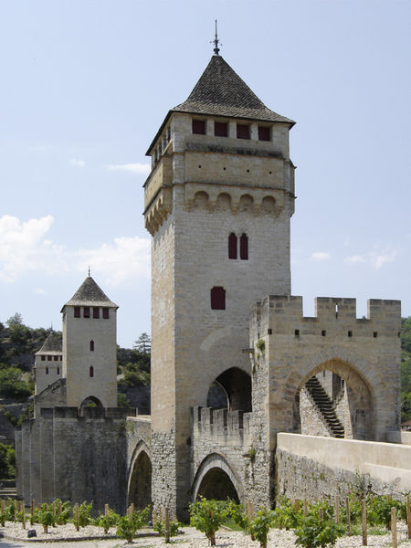 The medieval Valentré bridge over the Lot river at Cahors, France, seen from the city. At the foreground, grape vine.